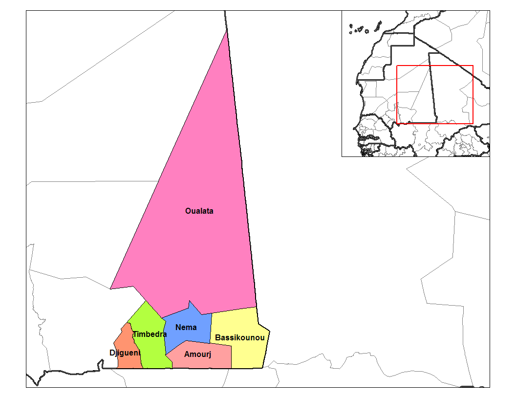 Map of the departments of Hodh Ech Chargui region of Mauritania. Created by Rarelibra 20:12, 28 September 2006 (UTC) for public domain use, using MapInfo Professional v8.5 and various mapping resources.